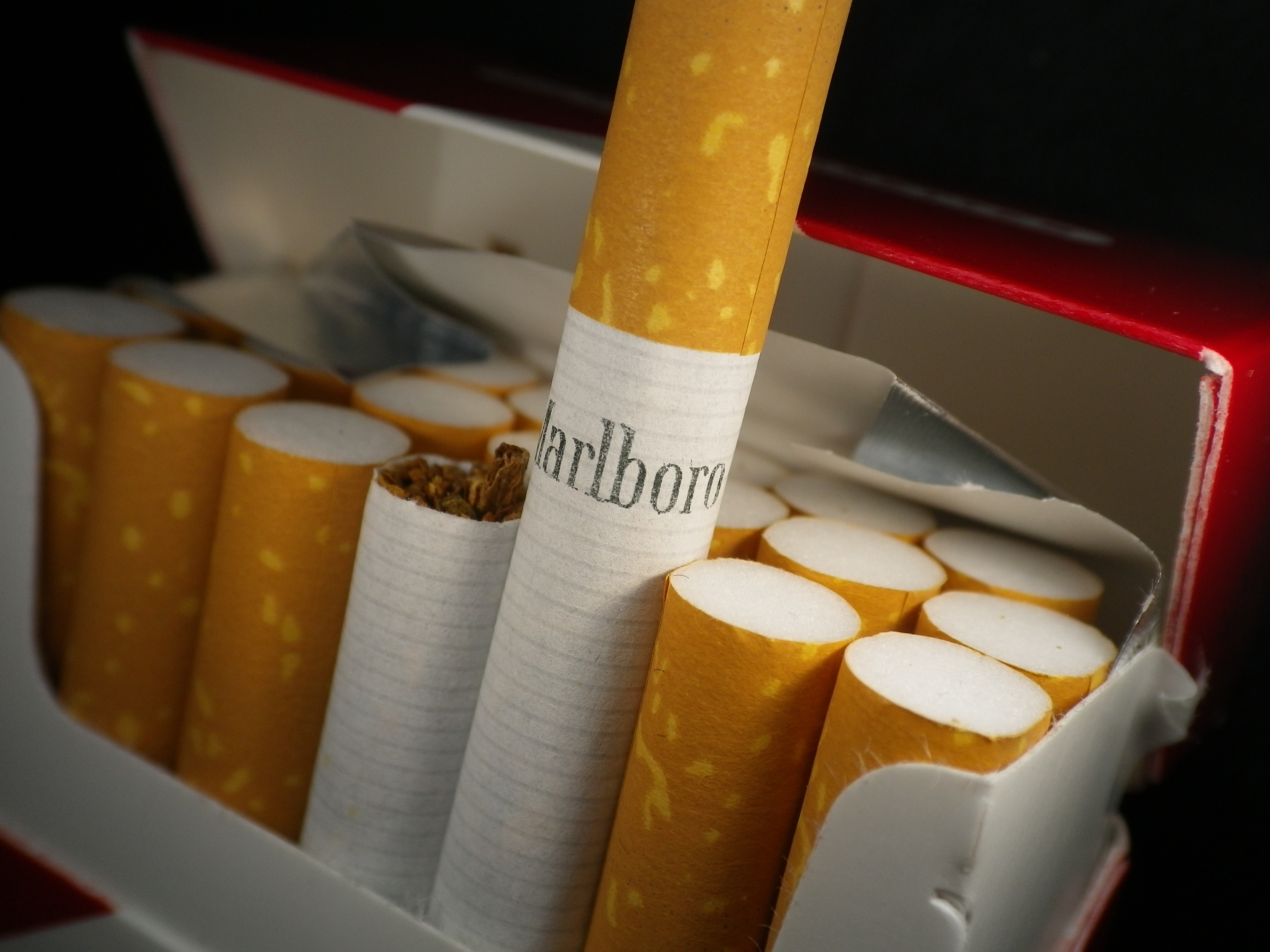 Marlboro cigarette in pack. Pentax Optio H90